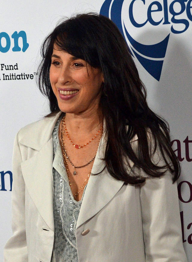 Mingle Media TV's Red Carpet Report host Traci Stumpf were invited to come out to the International Myeloma Foundation's 7th Annual Comedy Celebration at the Wilshire Ebell Theatre & Club in Los Angeles.